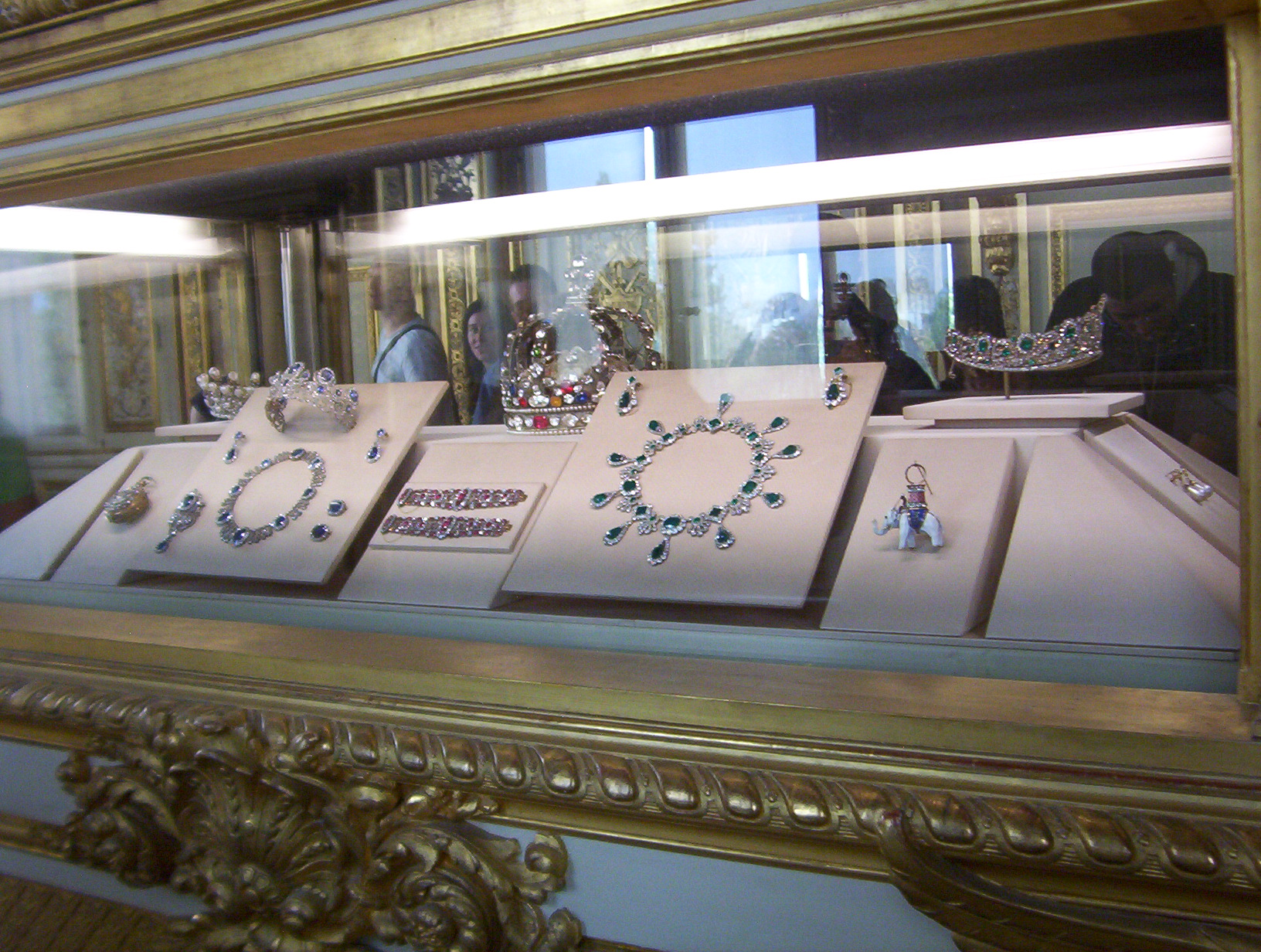 French crown jewels in the Louvre exhibition